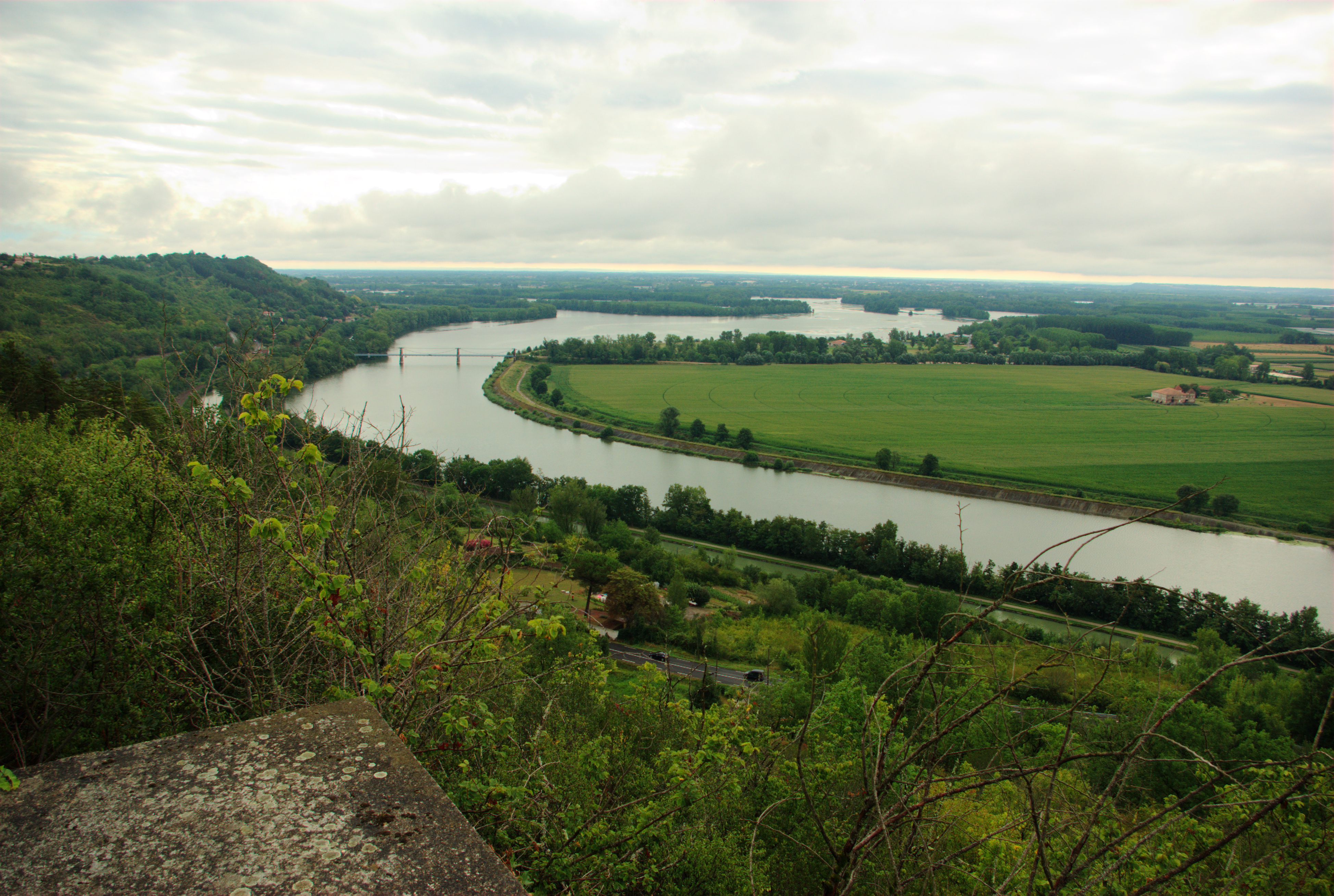 Confluence of Tarn and Garonne rivers near Boudou (France).